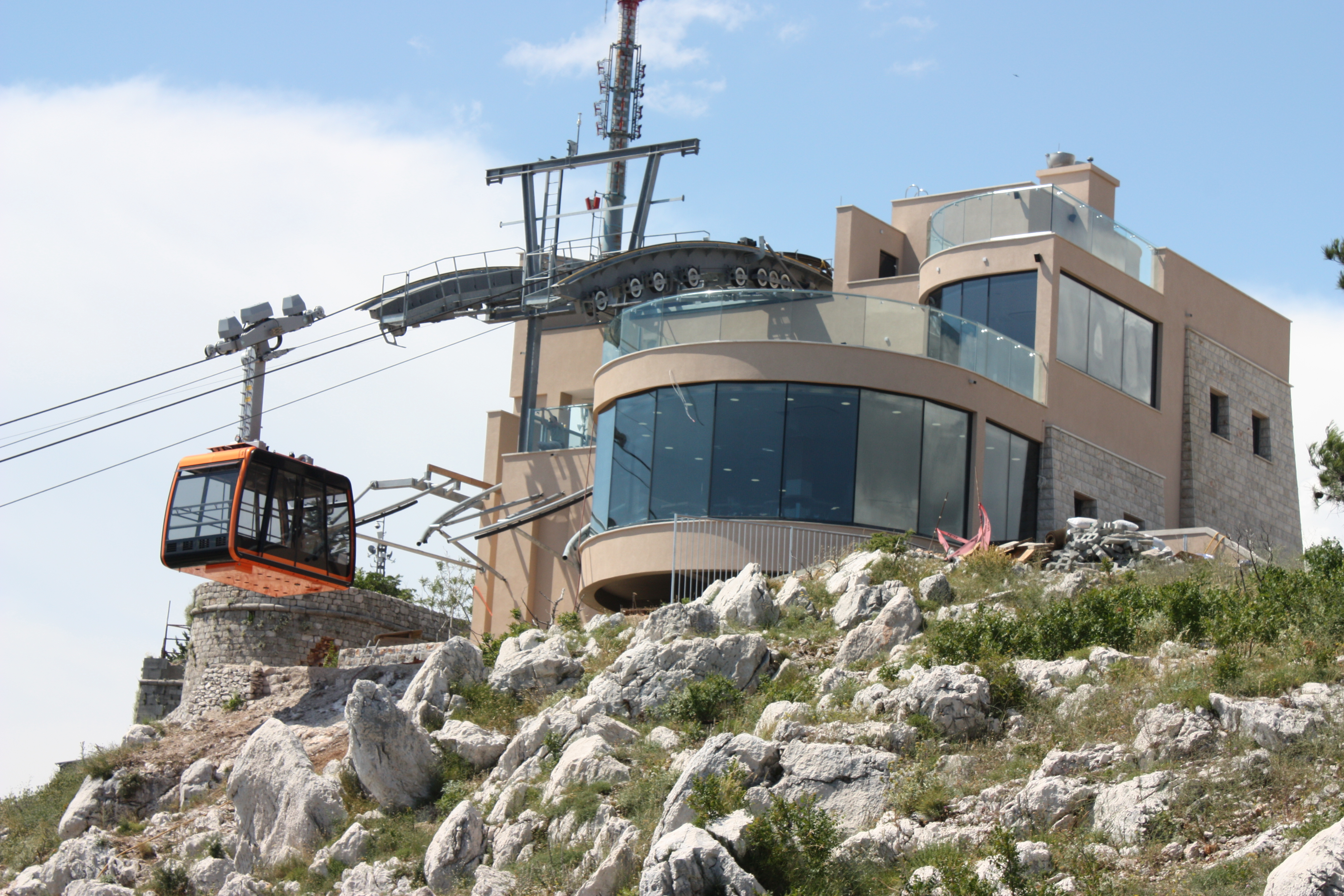 Cable car Srđ - Dubrovnik